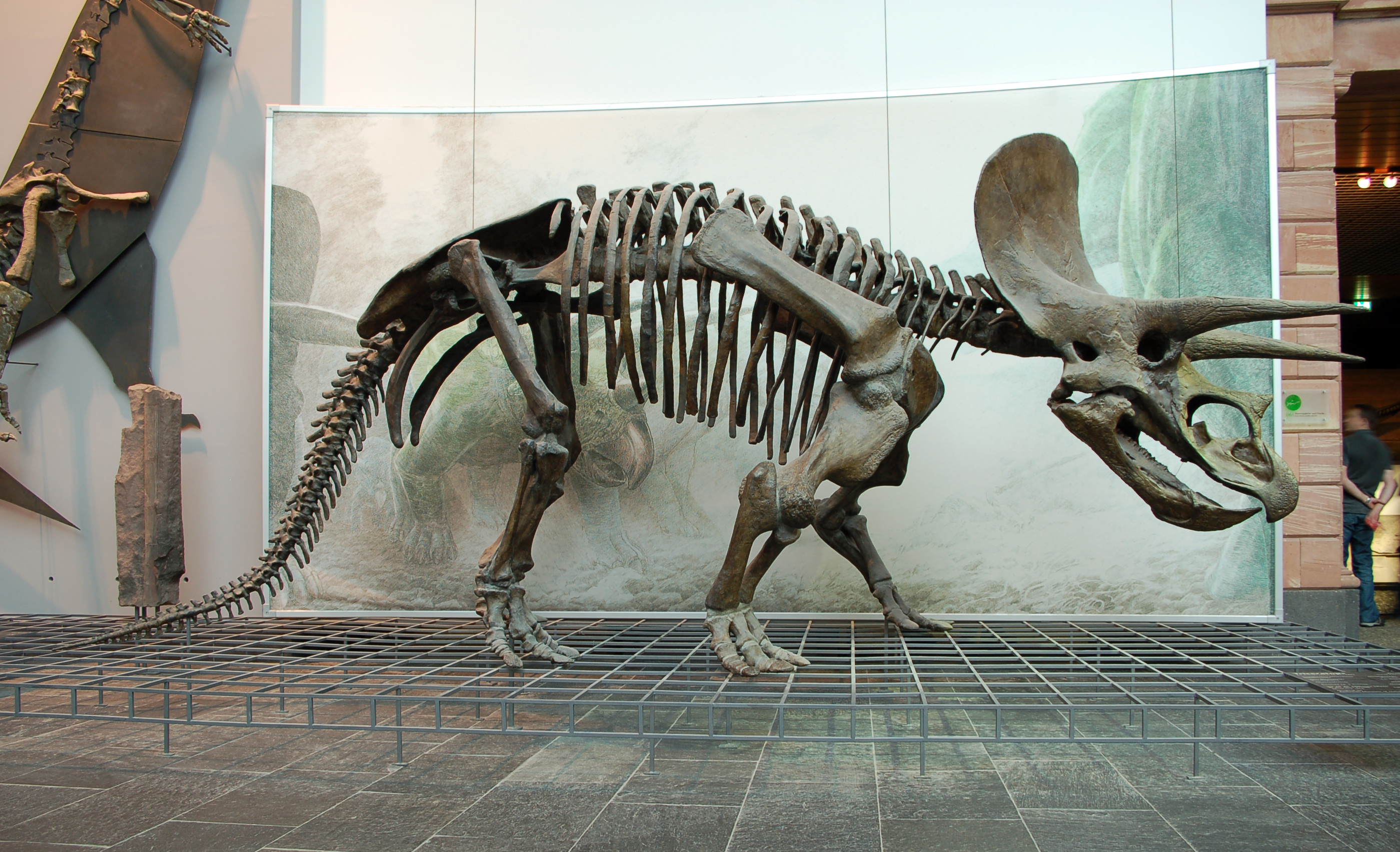 Reconstruction of a Triceratops skeleton in the Senckenberg Museum in Frankfurt am Main, assembled from fragments of different skeletons